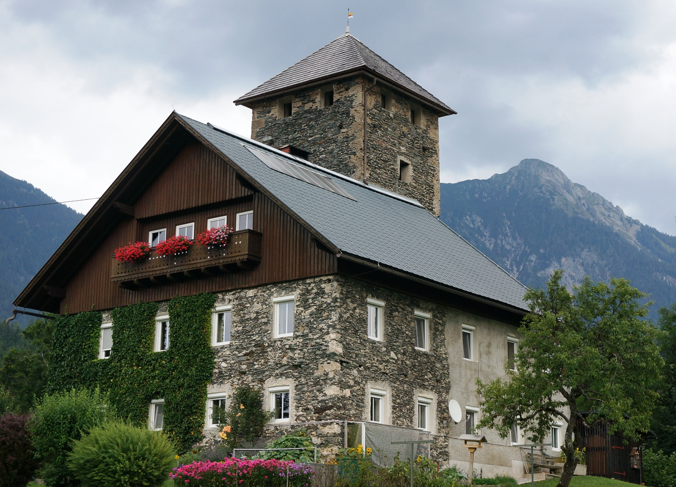 Castle of Thurnhof, municipality Hermagor, Carinthia, Austria, Europeen Union